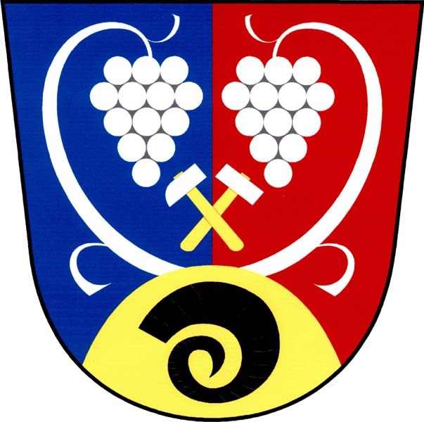 Municipal coat of arms of Vinařice village, Kladno District, Czech Republic.